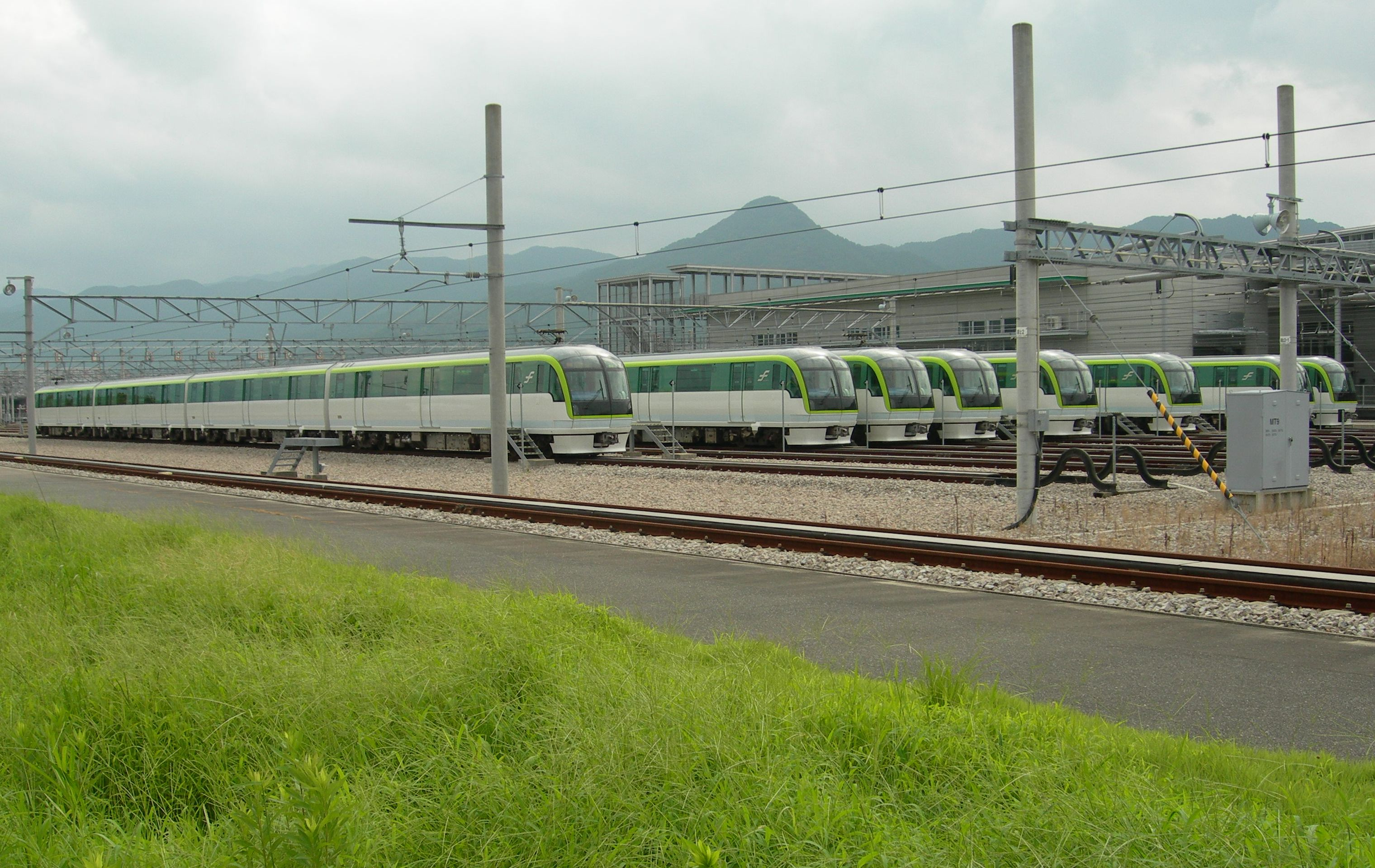 Fukuoka City Subway Hashimoto Depot on the Nanakuma Line